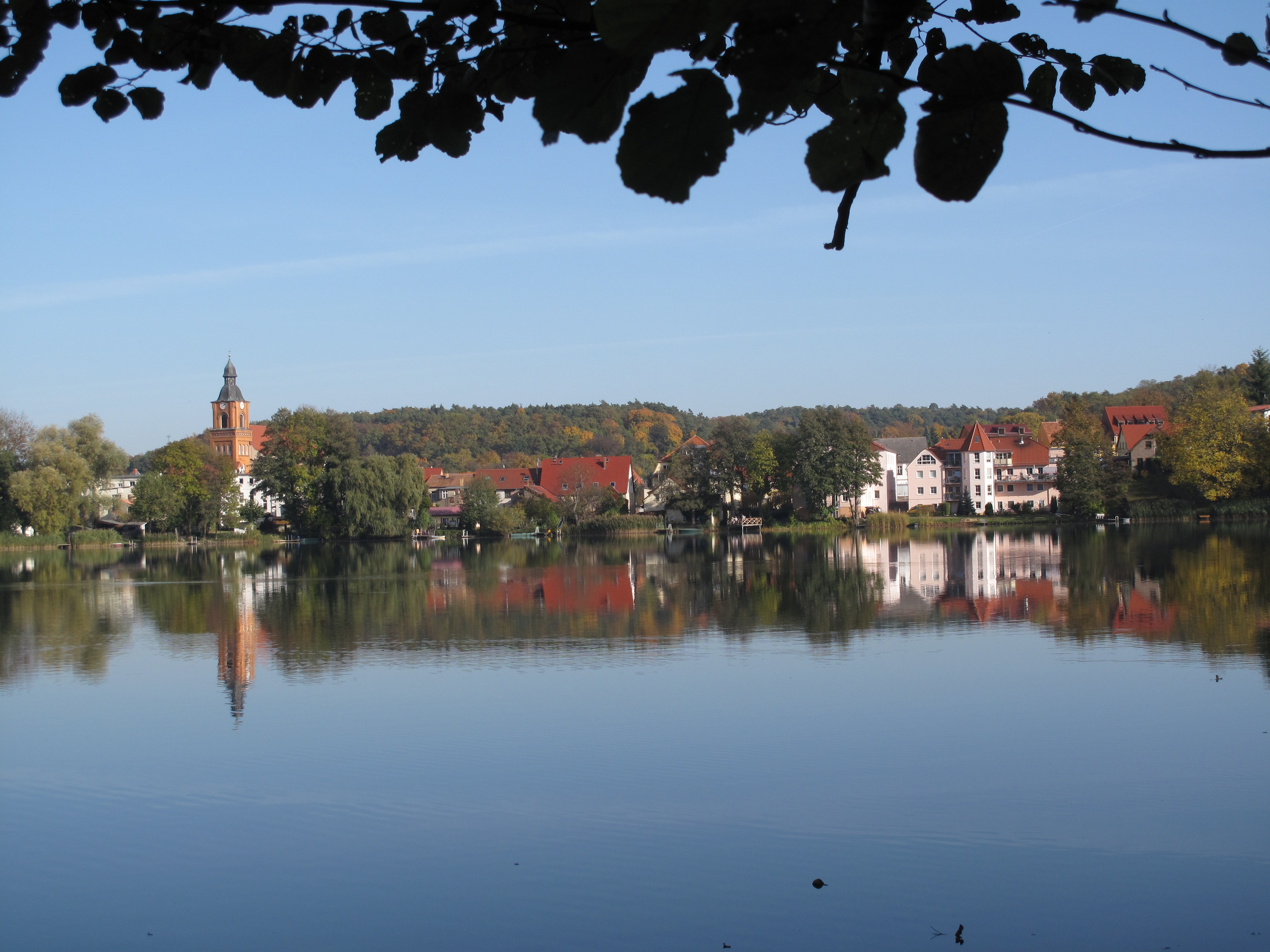 View of the western shore of the Buckowsee to the center of Buckow at the eastern shore. The Buckowsee is a lake in Buckow, District Märkisch-Oderland, Brandenburg, Germany. The lake covers 14 hectare and has a depth of max. twelve meters. It is crossed by the river Stobber. In the west border the Kurpark Buckow (german for: Spa Park) and the Lunapark to the lake. The lake is situated in the hill country „Märkische Schweiz“ and in the Märkische Schweiz Nature Park.